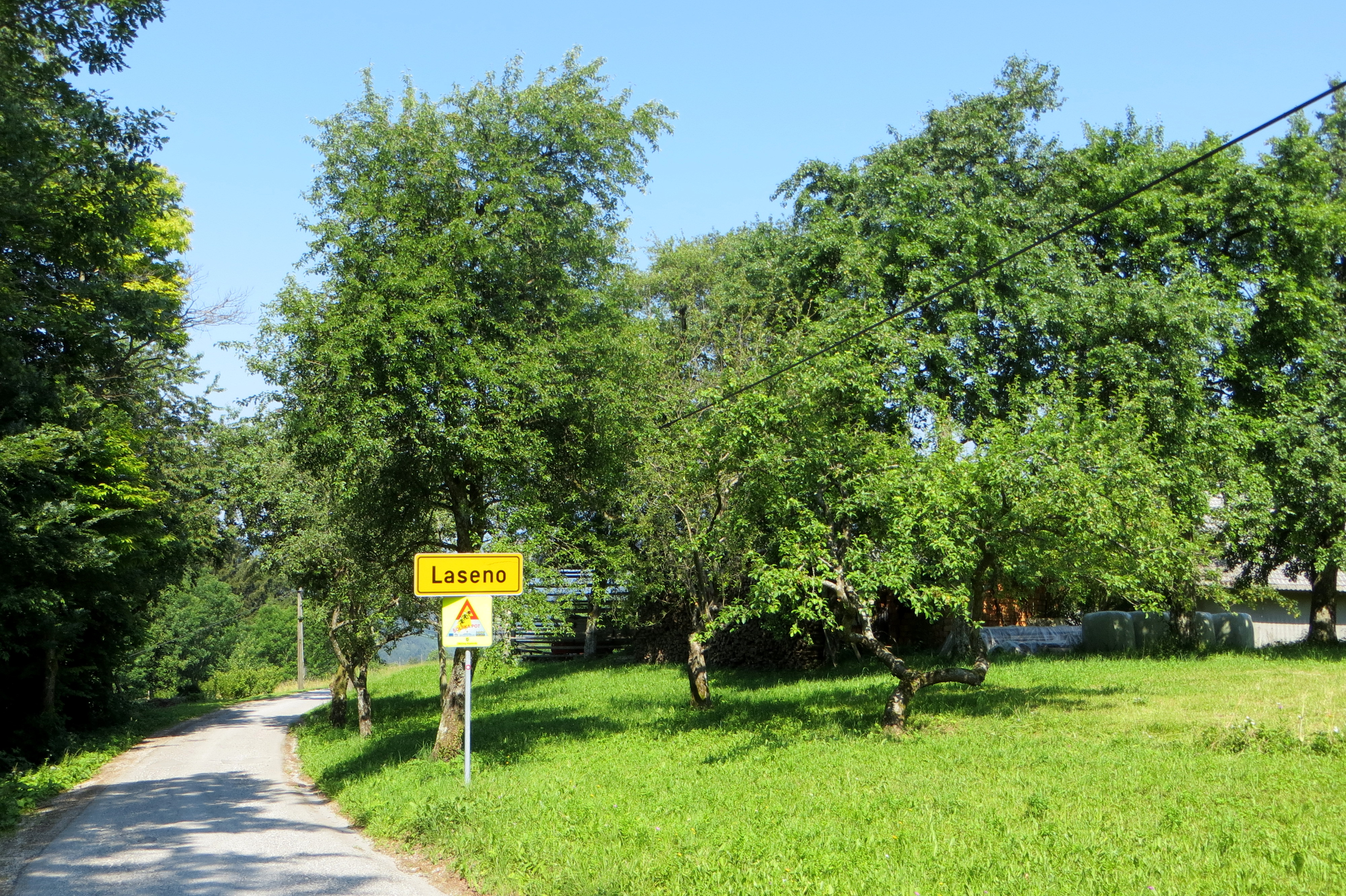 Laseno, Municipality of Kamnik, Slovenia